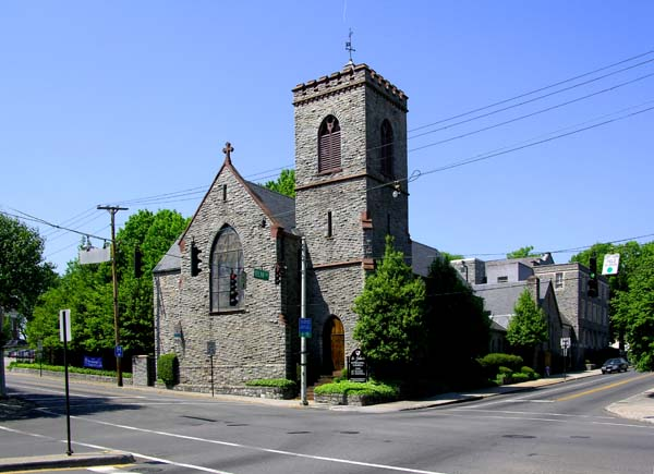 St. Johns Episcopal Church listed on the National Register of Historic Places in Roanoke, Virginia, USA